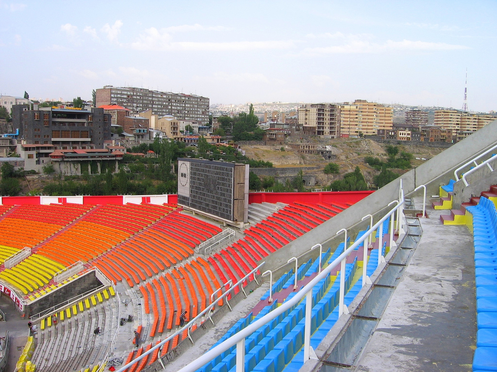 Hrazdan Stadium